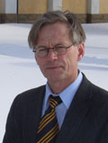 Professor Peter Schantz, 2009